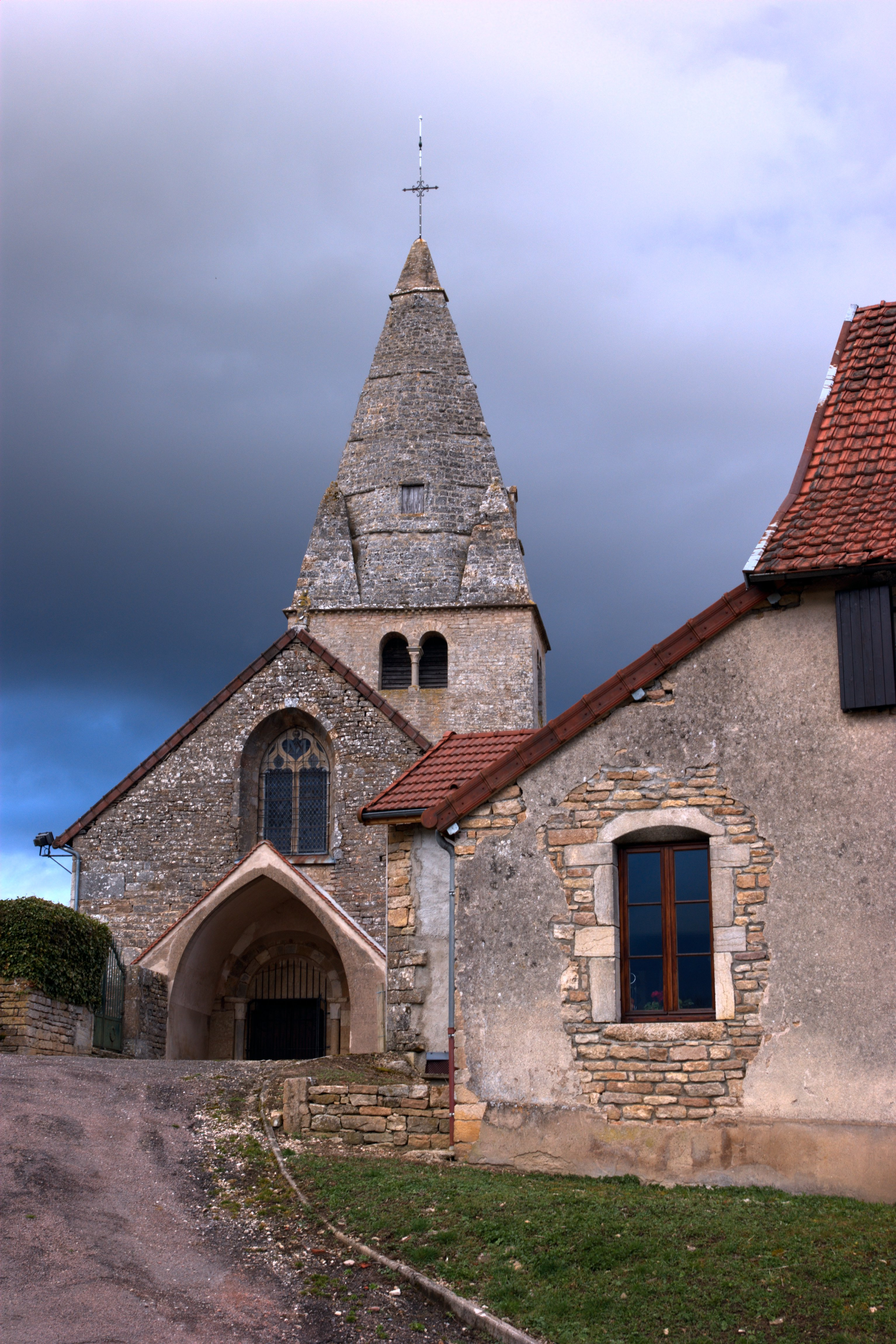 Bellenot-sous-Pouilly: the church